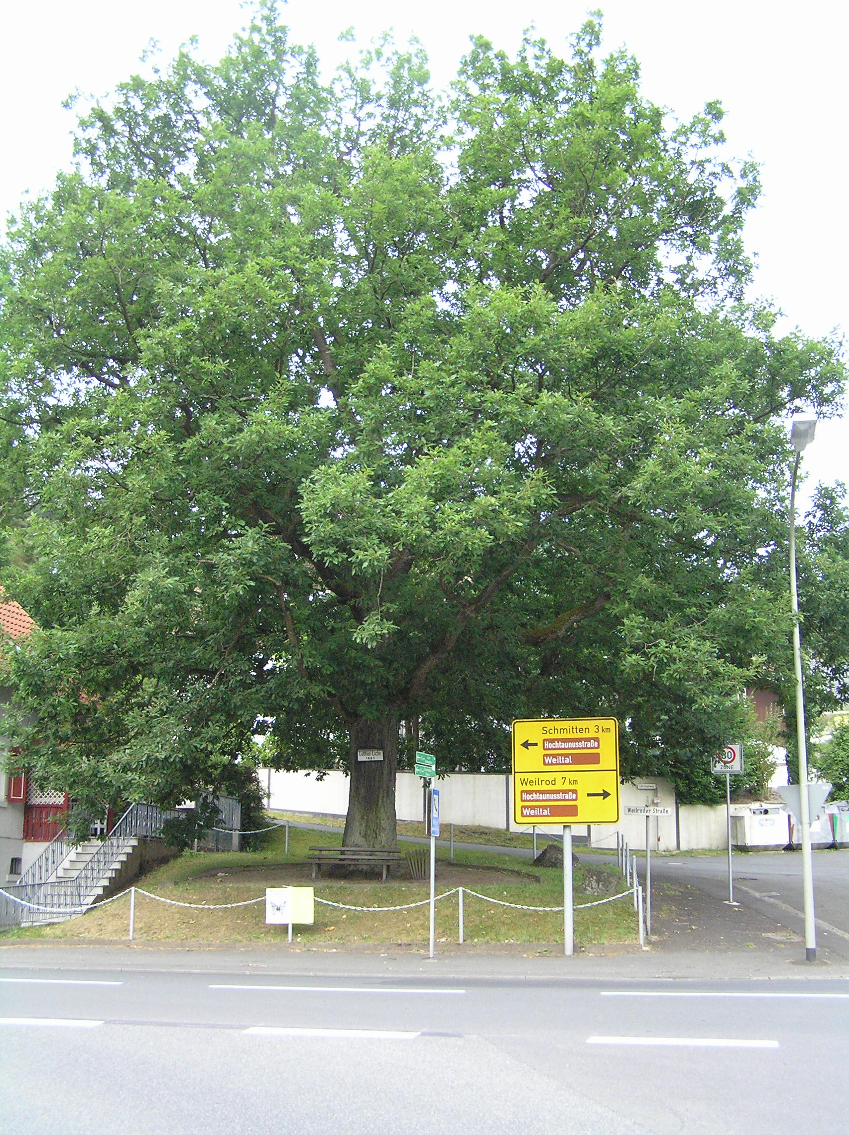 Luther oak, Brombach, Schmitten (Taunus), Germany